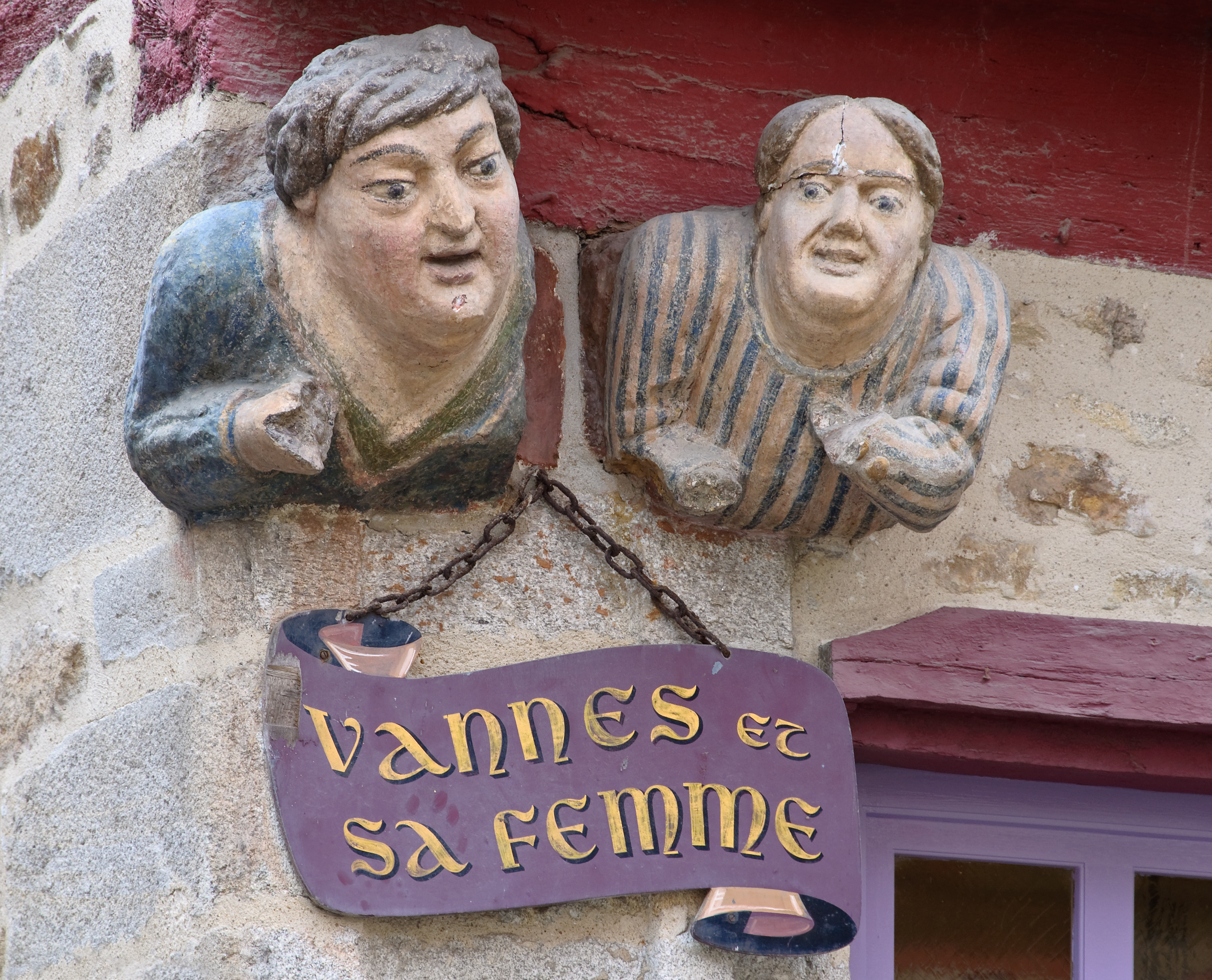 "Vannes and his wife", carved stone busts on the facade of a 16th-century house in Vannes, Vannes, Morbihan, France.